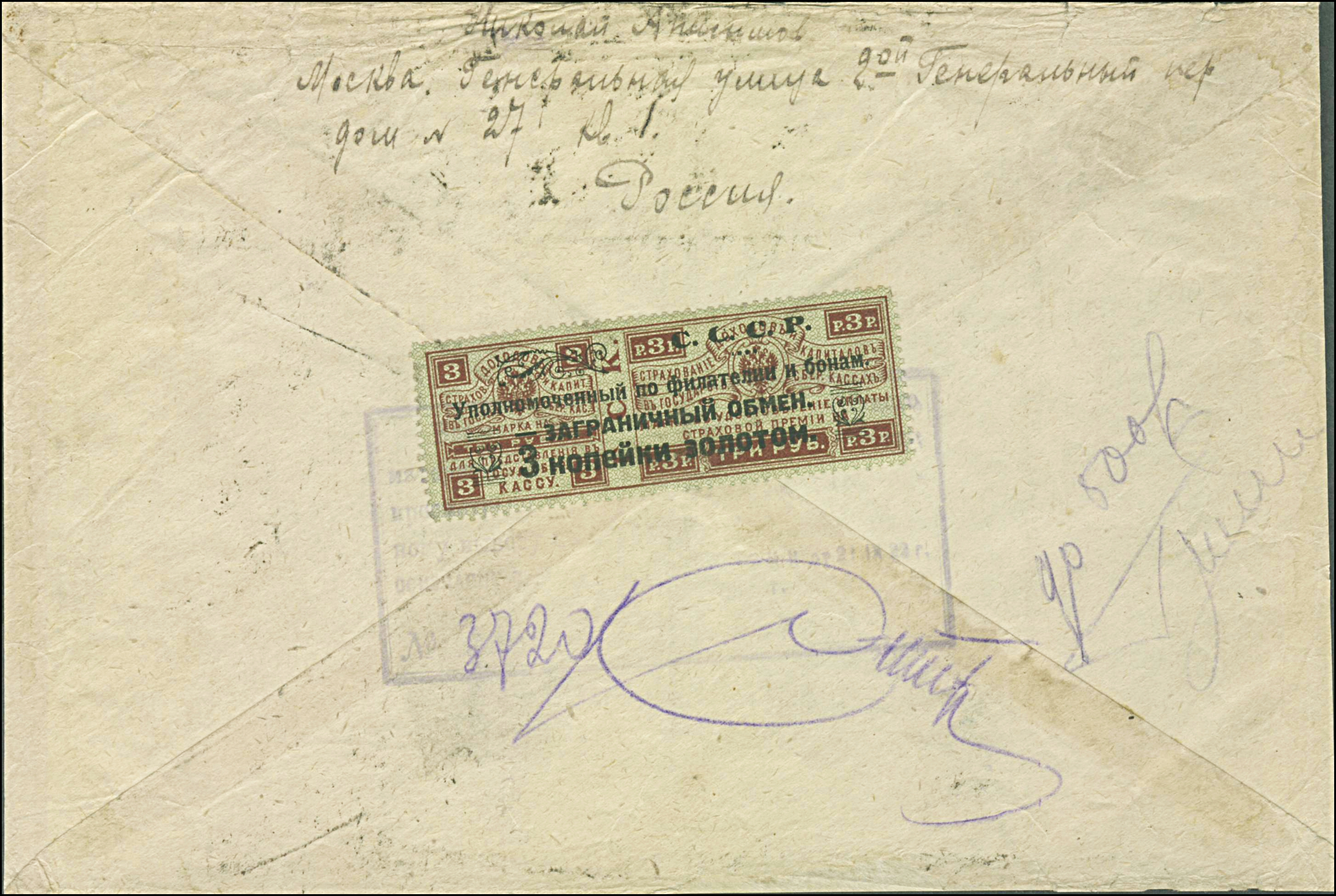 USSR registered cover franked by 10kop Soldier & 2x 30kop Peasant, posted at MOSKVA on 29.8.1924, sent to Czechoslovakia. Foreign exchange tax stamp 3kop (Mi. IIb, ovpt on 3Rb brown-carmine) on back, officially canceled by purple box.